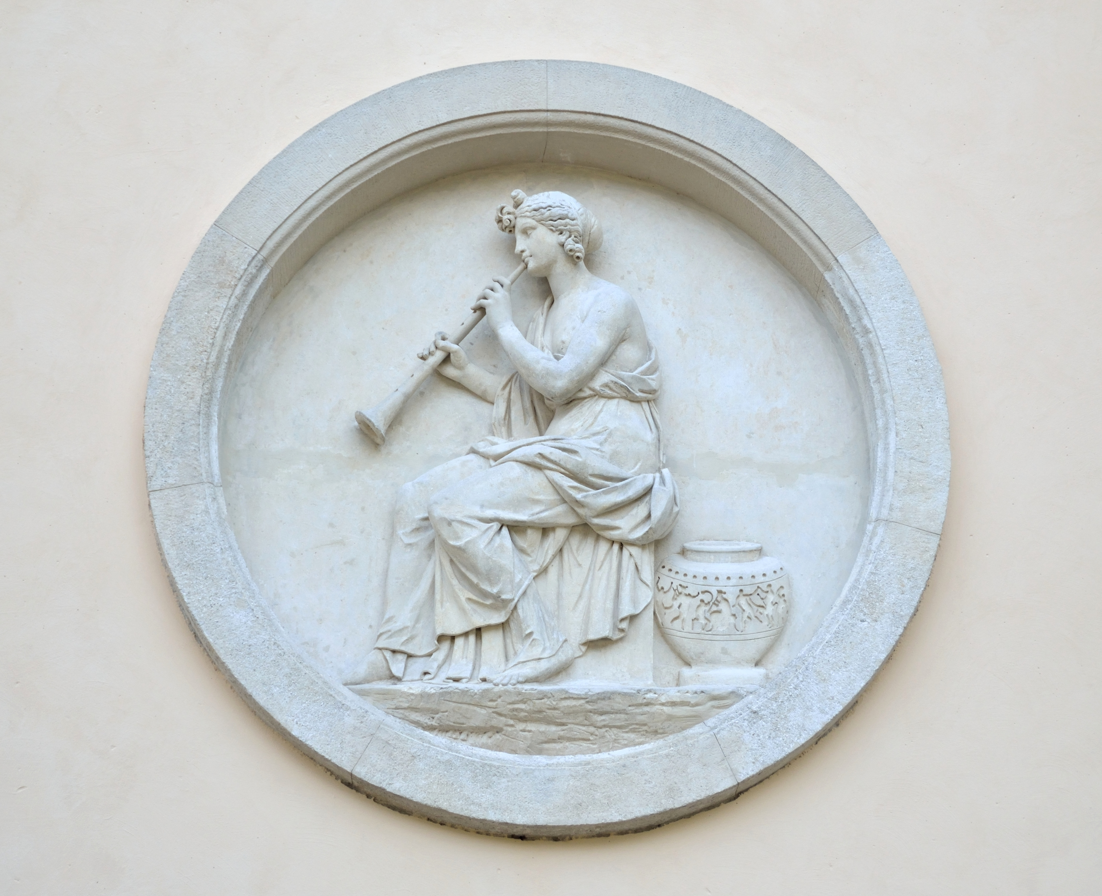 Diana temple Rendezvous in the Lednice–Valtice Cultural Landscape in the Czech Republic.